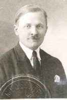 Antanas Jurgelionis